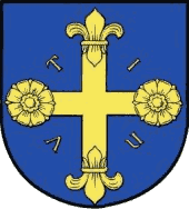 Coat of arms of the Stadt (town) Eutin in Schleswig-Holstein, Germany.